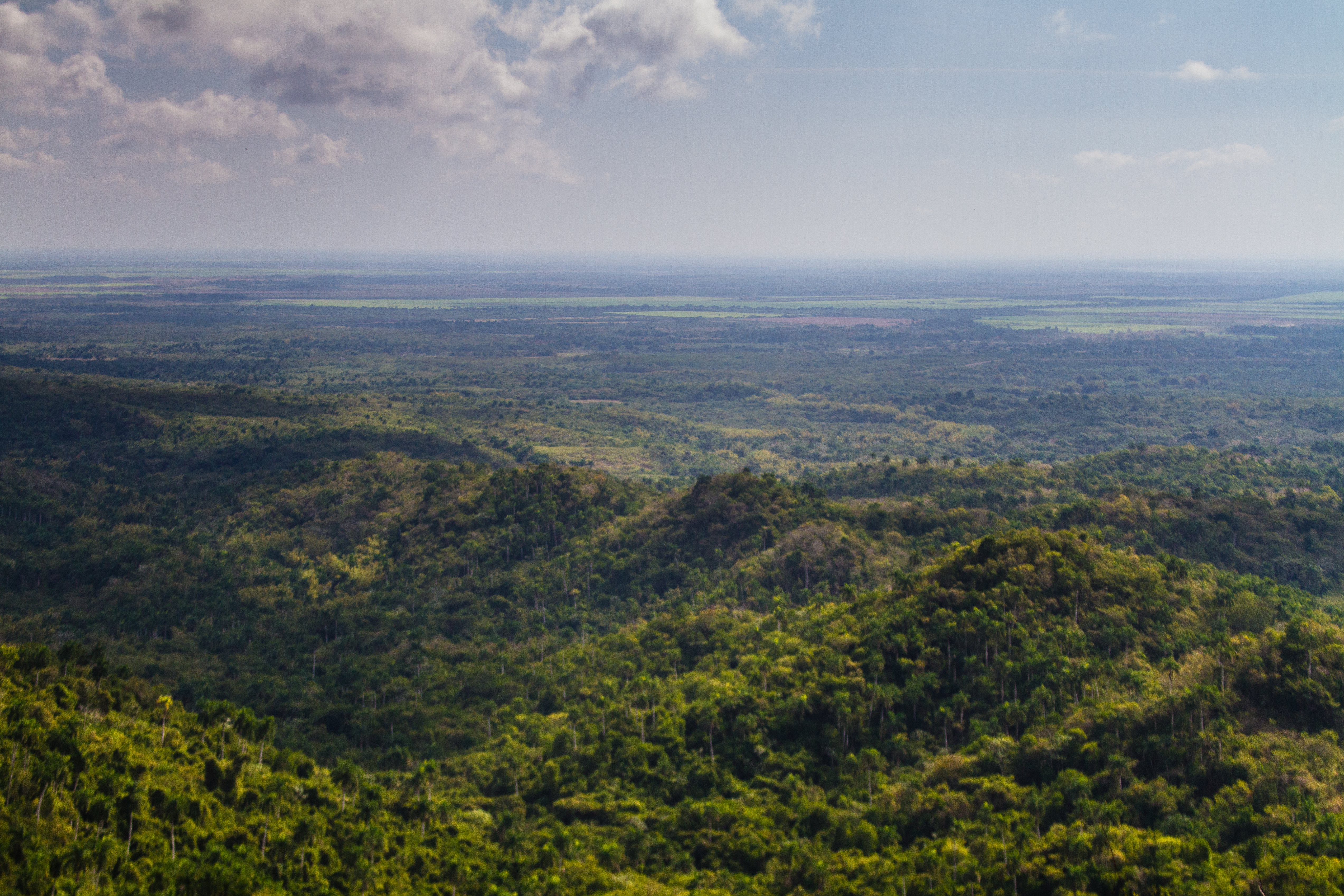 View over the southern slopes of Sierra del Rosario from the viewpoint Mirador del Soroa. This is an image of the Biosphere Reserve or a Geopark: Sierra del Rosario